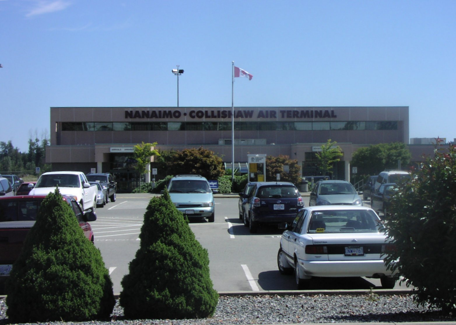 Air terminal at Naniamo Airport Bill Kempthorne, August 2006, taken by self